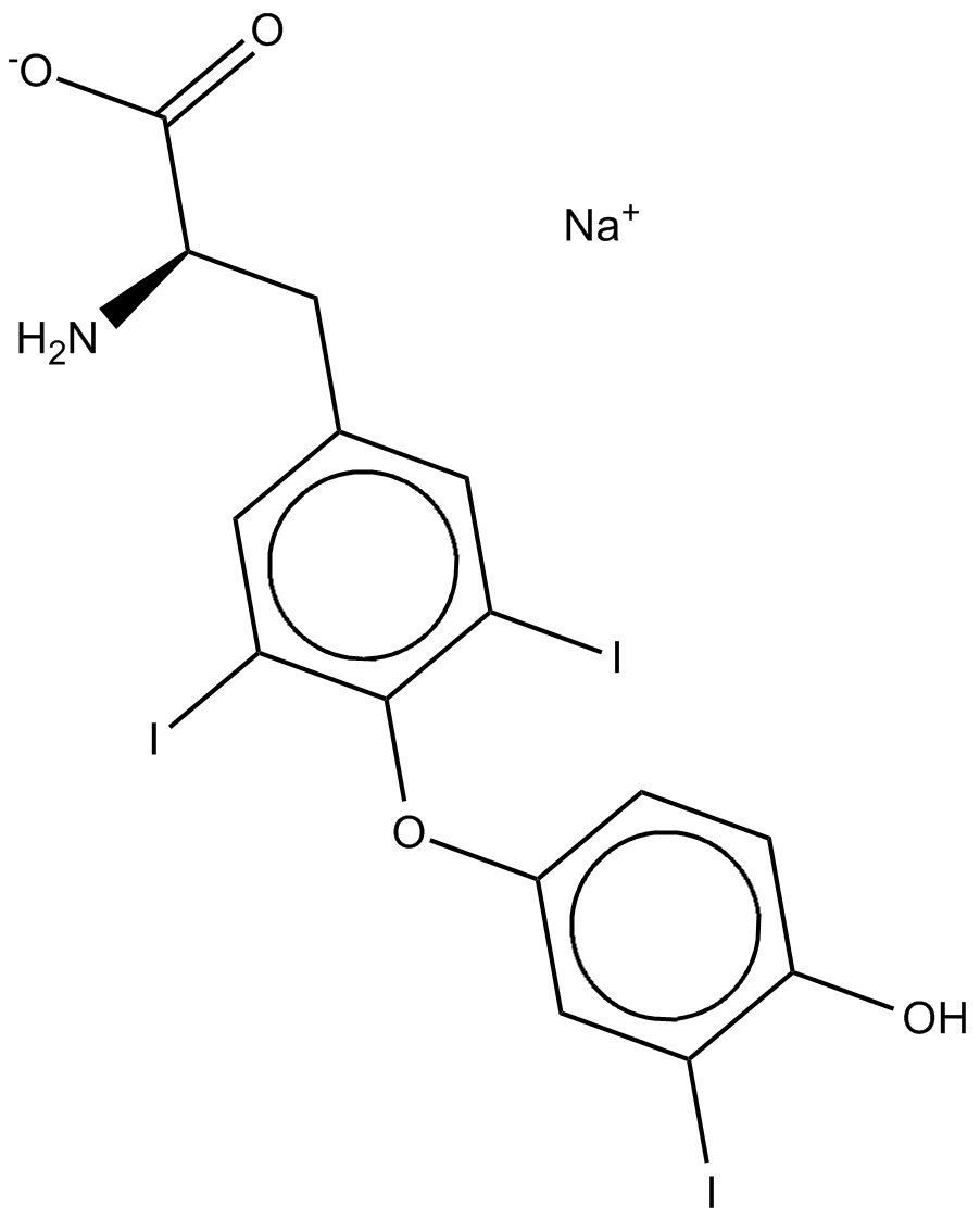 Chemical structure of Liothyronine sodium.